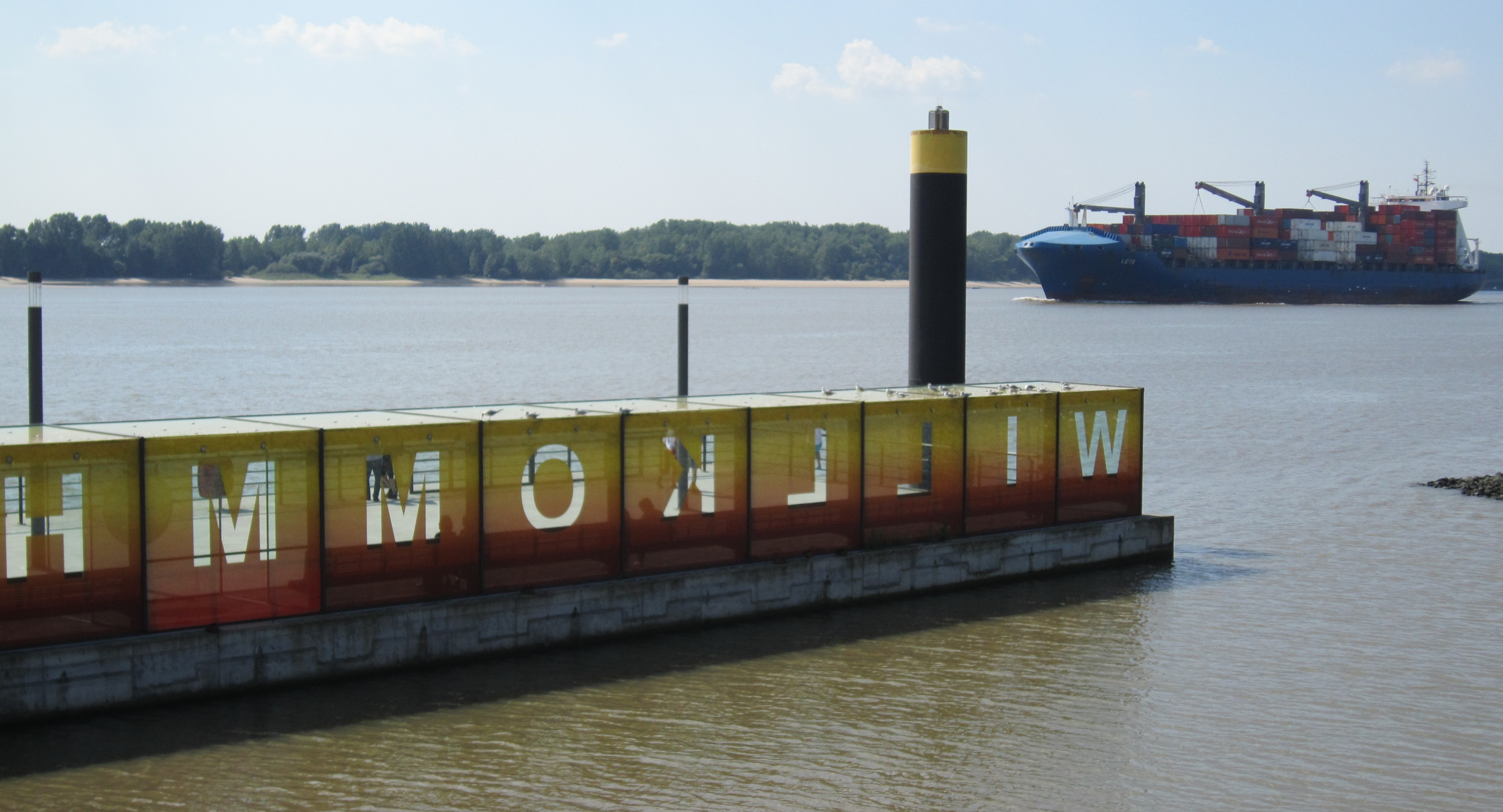 Ship greeting installation "Welcome Point" at Elbe River near Hamburg